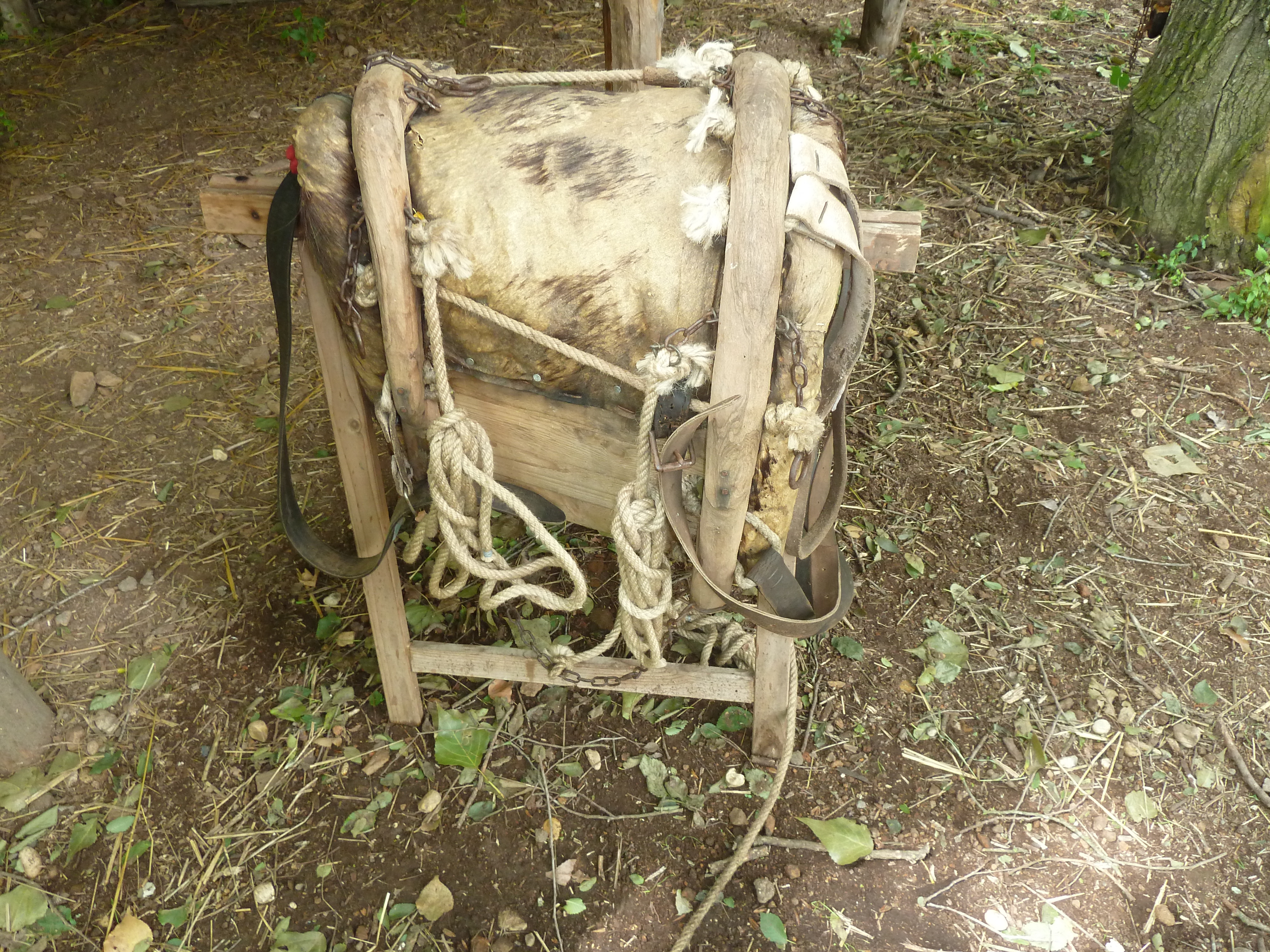 Farm Reconstruction Appia Antica Regional Park, Rome Draft Horse Harness